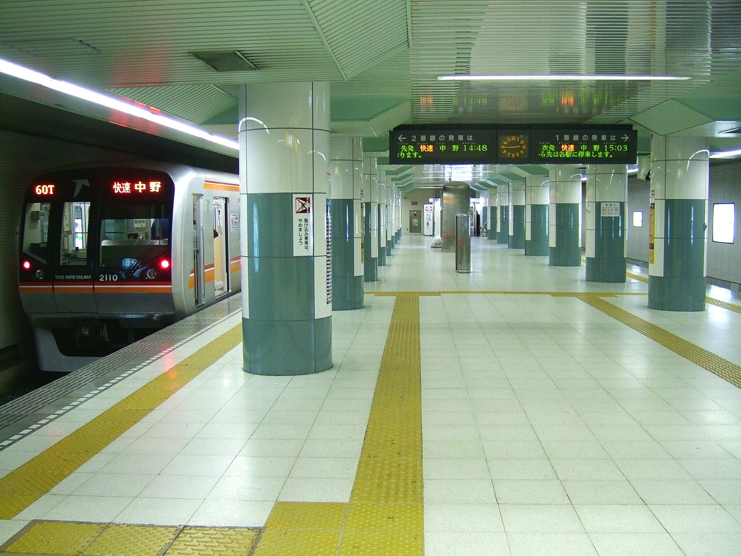 The underground platforms at Toyo-Katsutadai Station, the terminus of the Toyo-Rapid Railway in Chiba Prefecture, with a Toyo 2000 series EMU awaiting to depart from platform 2